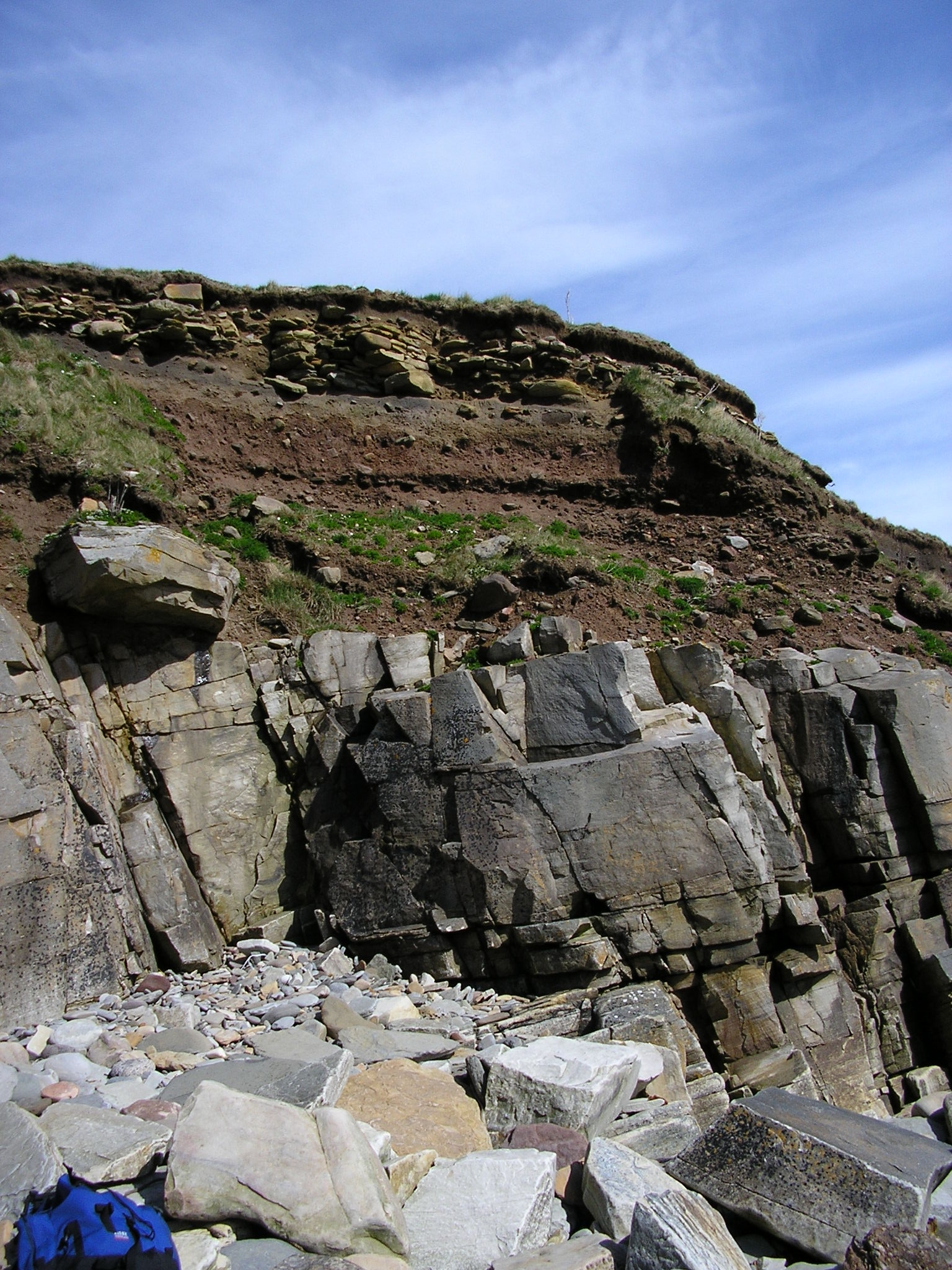 Rockhead on the east side of Sandside Bay, Caithness, Scotland. The bedrock is dune-bedded sandstone of the Middle Devonian Fresgoe Sandstone Member.